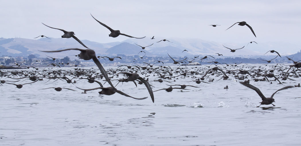 Many Sooty Shearwaters near Avila Beach, California, USA. It is difficult to get a photo of the mass, which probably numbered much over 10,000 (according to the photographer).